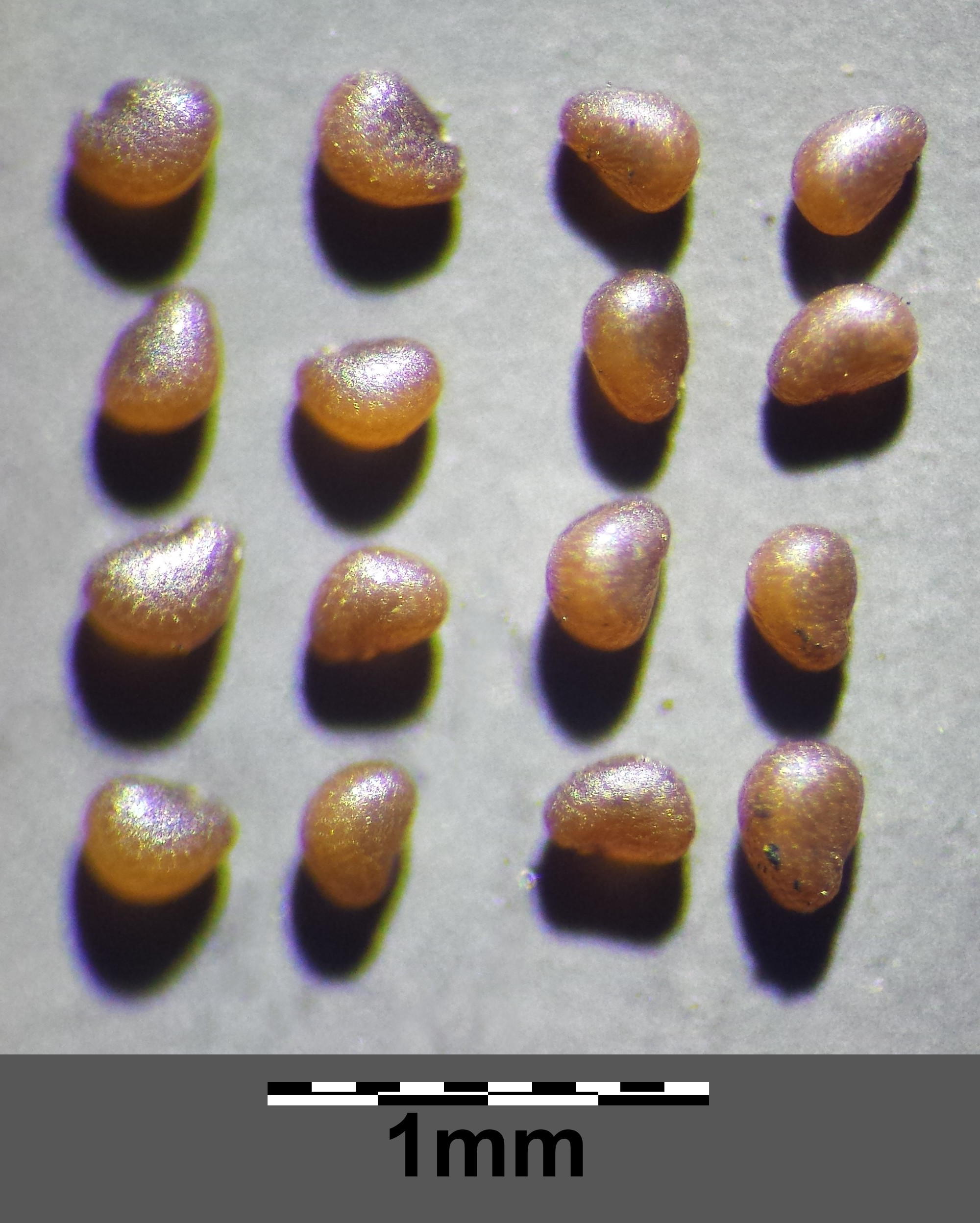 Seeds Taxonym: Sagina procumbens ss Fischer et al. EfÖLS 2008 ISBN 978-3-85474-187-9 Location: Rosenburg, district Horn, Lower Austria - ca. 260 m a.s.l. Habitat: gap in road surface